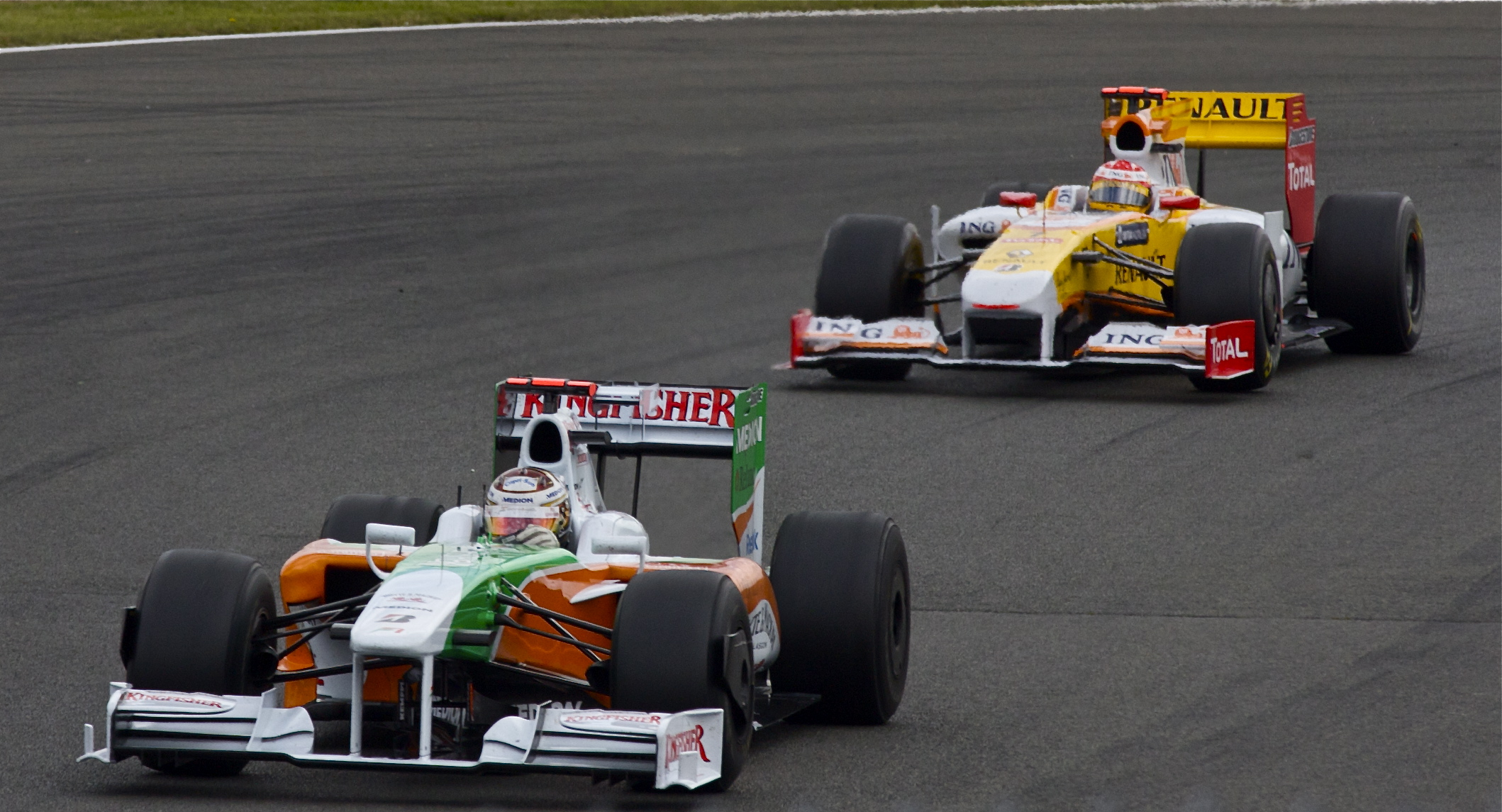 Adrian Sutil (front) and Fernando Alonso at the 2009 British Grand Prix, Silverstone, UK.